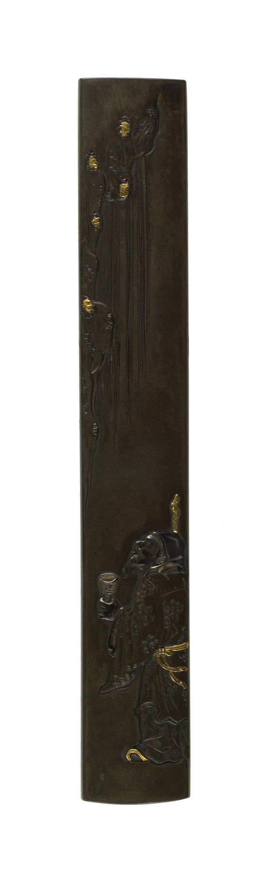 At the bottom of the kozuka stands the 8th-century Chinese poet Rihaku (Ch. Li Bai [Li Pai], also known as Li Bo [Li Po]). He holds a wine cup and a staff. His attention is directed to the waterfall at the top of the composition. One of his most well-known poems is about the waterfall at Lu-shun.